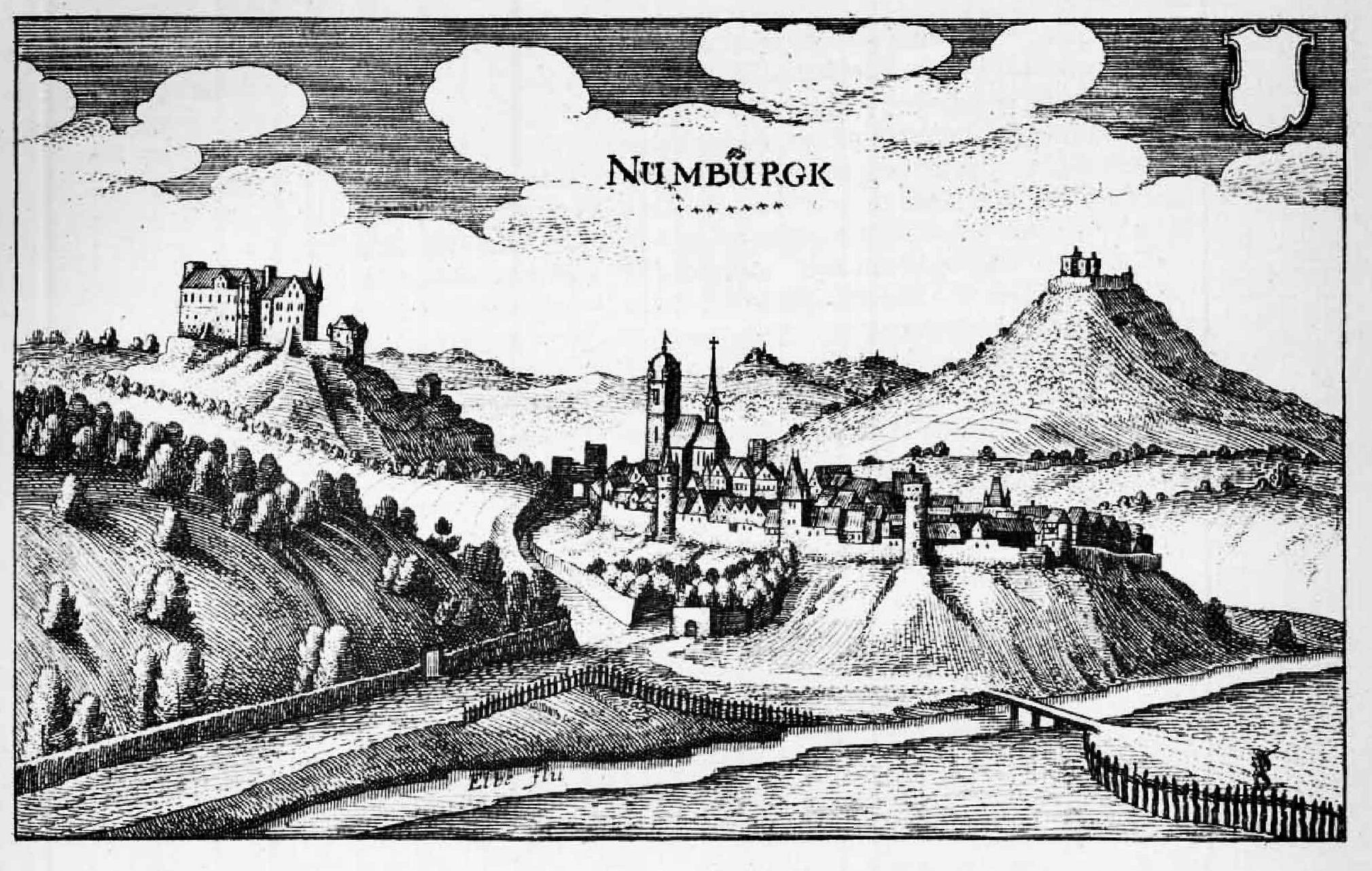 Author Martin Zeiller transcribed at Wikisource Start this Book Illustrator Matthäus Merian Title Topographia Archiepiscopatuum Moguntinensis Volume 6 Edition 1 Year of publication 1646 Place of publication Frankfurt am Main Language german Source Scan eines Orginal Buchs durch Permission (Reusing this file) This work is in the public domain in the United States because it was published (or registered with the U.S. Copyright Office) before January 1, 1923. This work is in the public domain in countries and areas where the copyright term is the author's life plus 100 years or less. This file has been identified as being free of known restrictions under copyright law, including all related and neighboring rights.